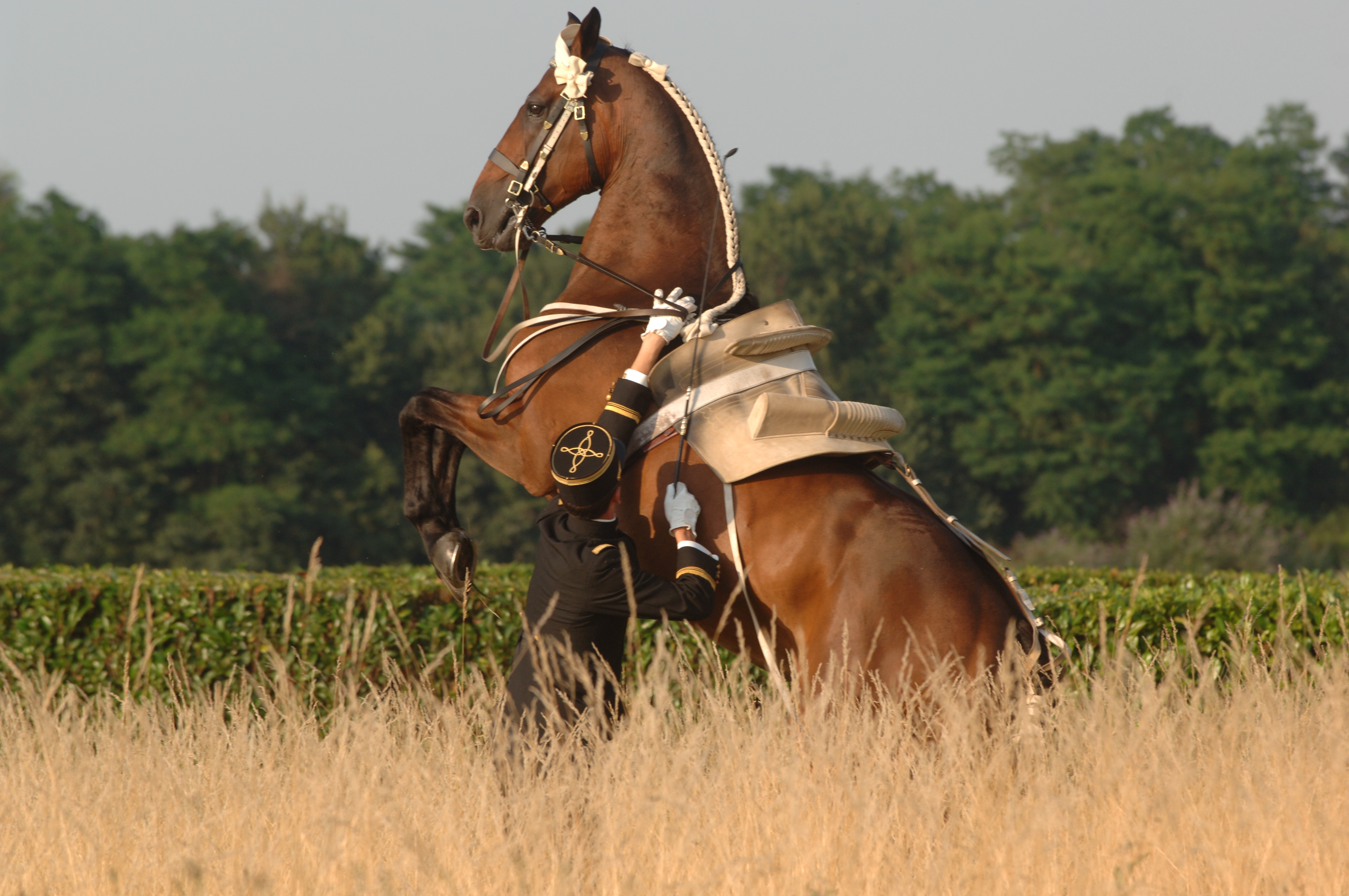 This photograph was taken by a Wikipedian, or provided by the Cadre noir, during a special day in May 2012 English | français | +/−